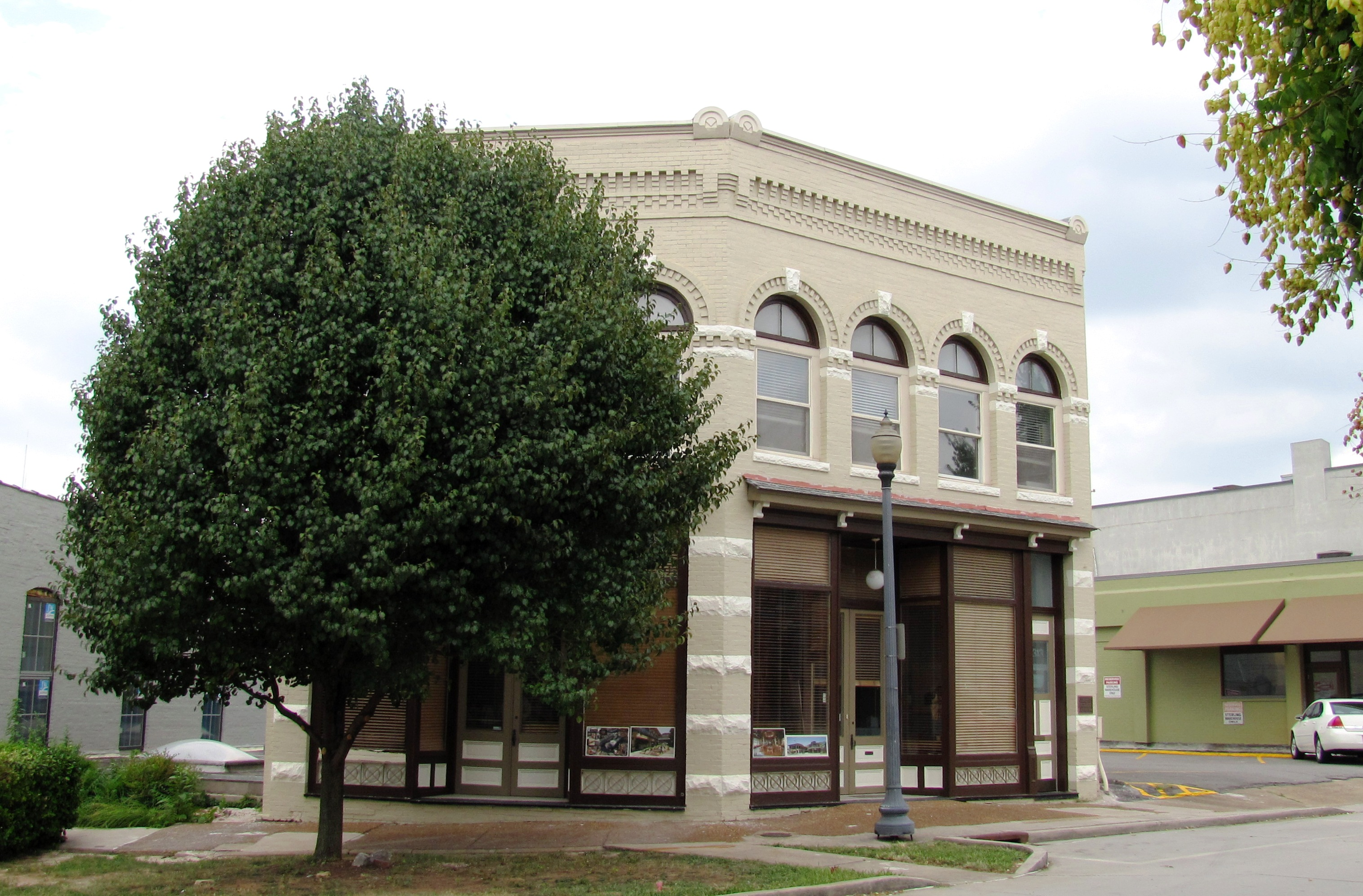 The Whittle and Spence Trunk Company Building (15-17 Emory Place) in Knoxville, Tennessee, USA. Built in 1890, this building is now a contributing property within the NRHP-listed Emory Places Historic District. This building now houses Two Roads, a bookkeeping company.